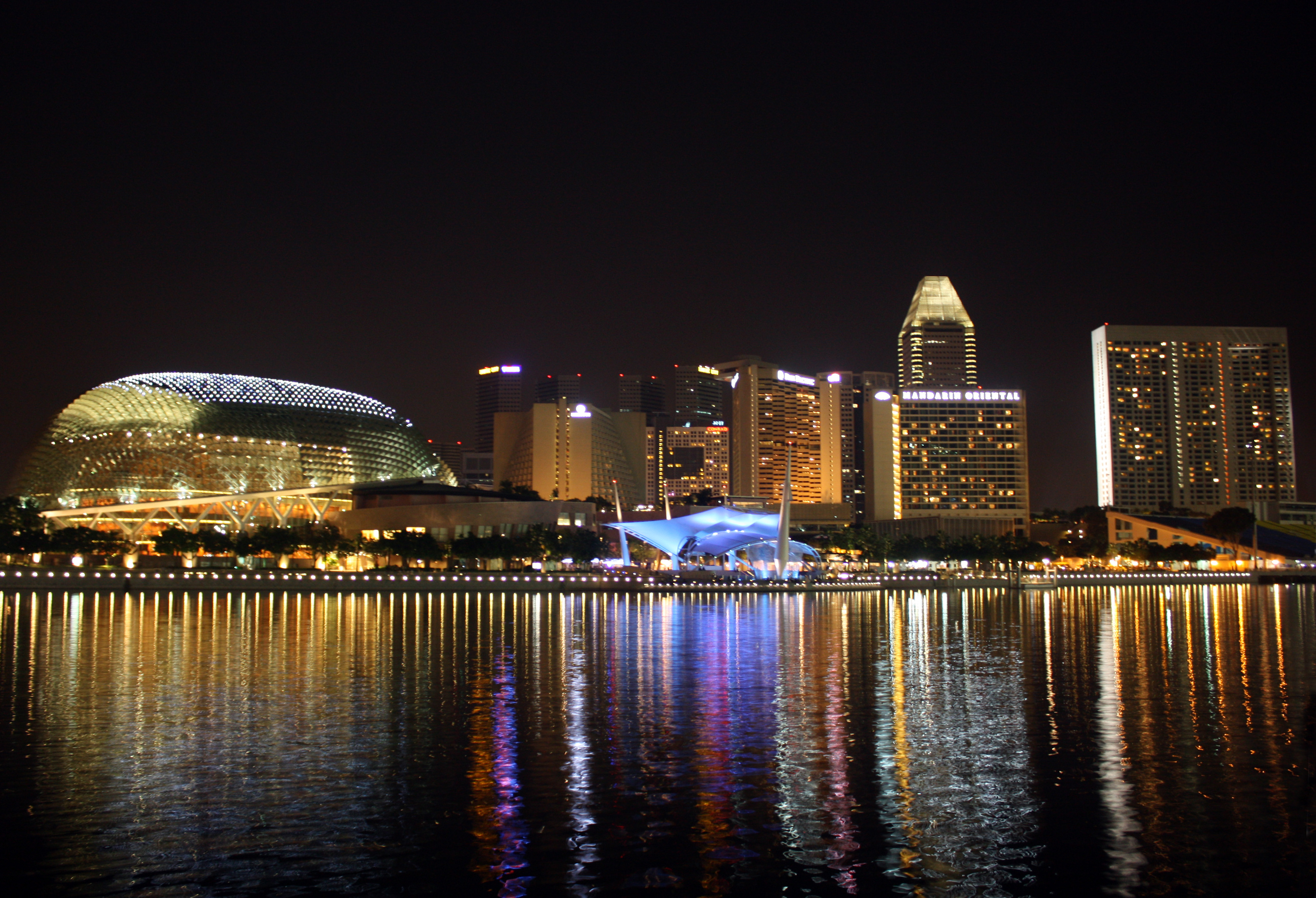 Photo of Marina Bay and Marina Centre in Singapore at Night taken on 1 May, 2009 by Wolfgang Holzem /